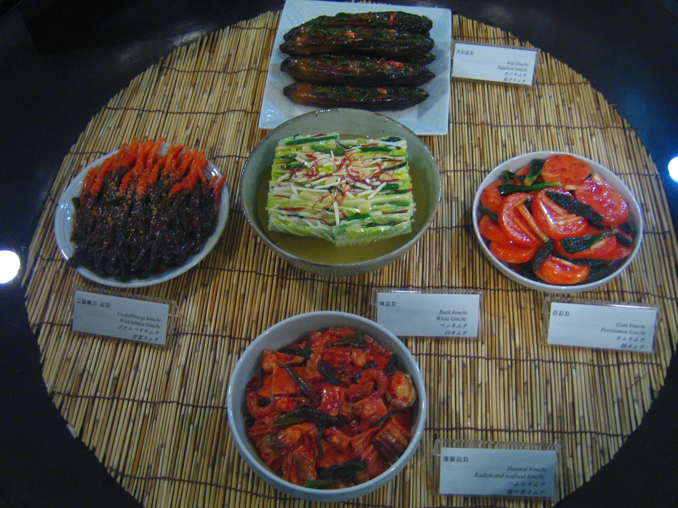 Various Kimchi at Kimchi Field Museum in Seoul, Korea